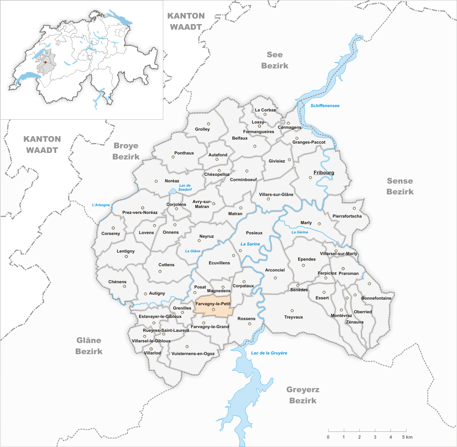 Municipality Farvagny-le-Petit Artist: Tschubby